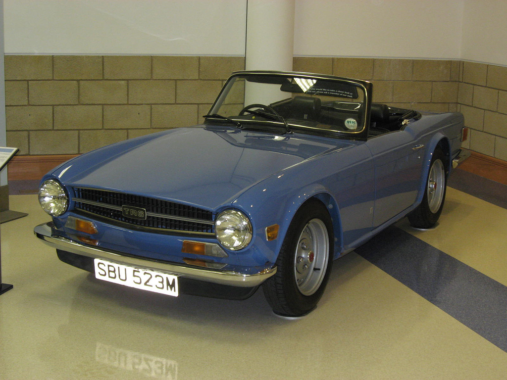 Triumph TR6 at the British motoring heritage museum gaydon.